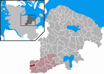 This map shows the area of the Gemeinde (municipality) Tasdorf in the Kreis (district) Plön, Schleswig-Holstein, Germany.